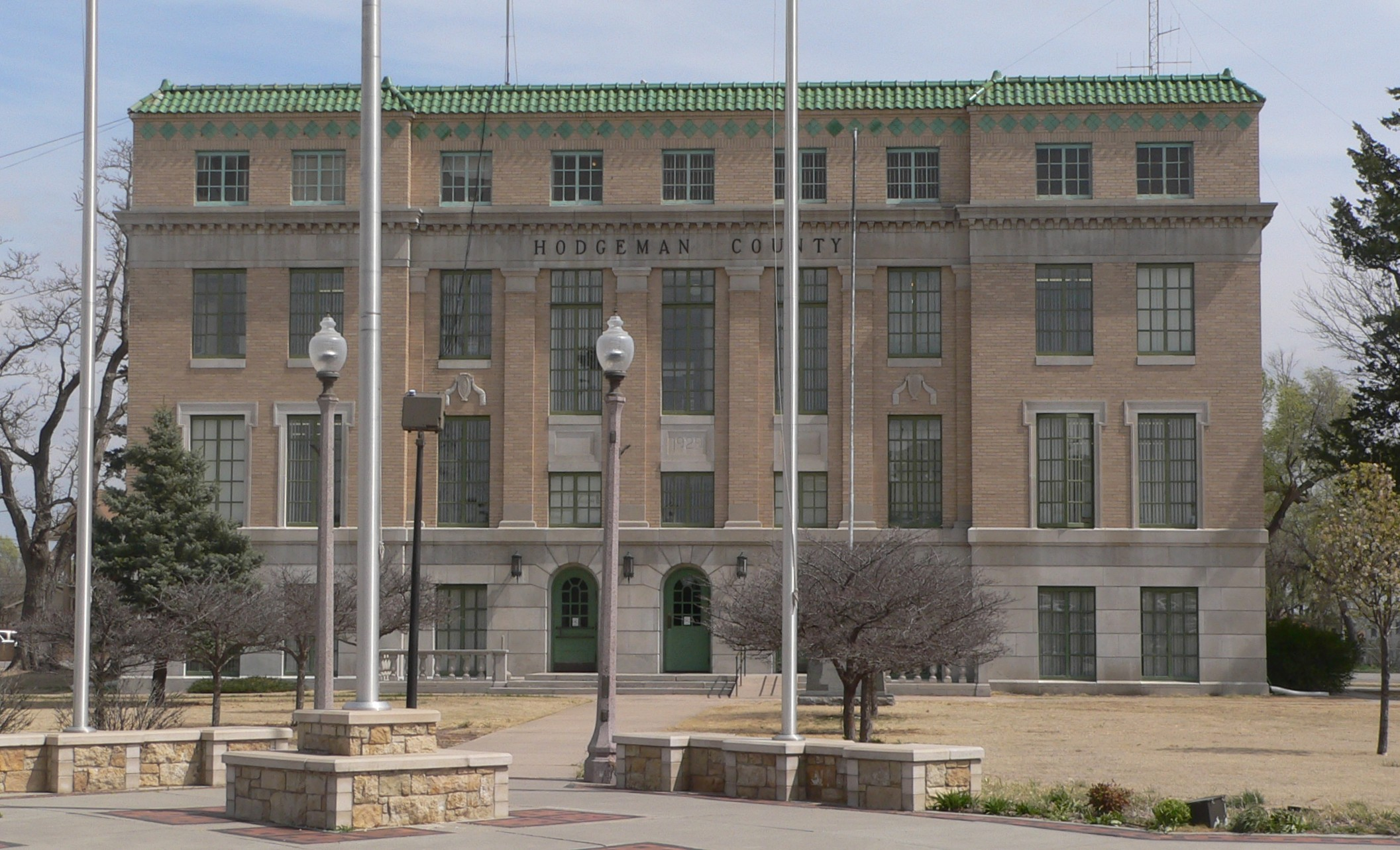 Hodgeman County courthouse in Jetmore, Kansas; seen from the west.